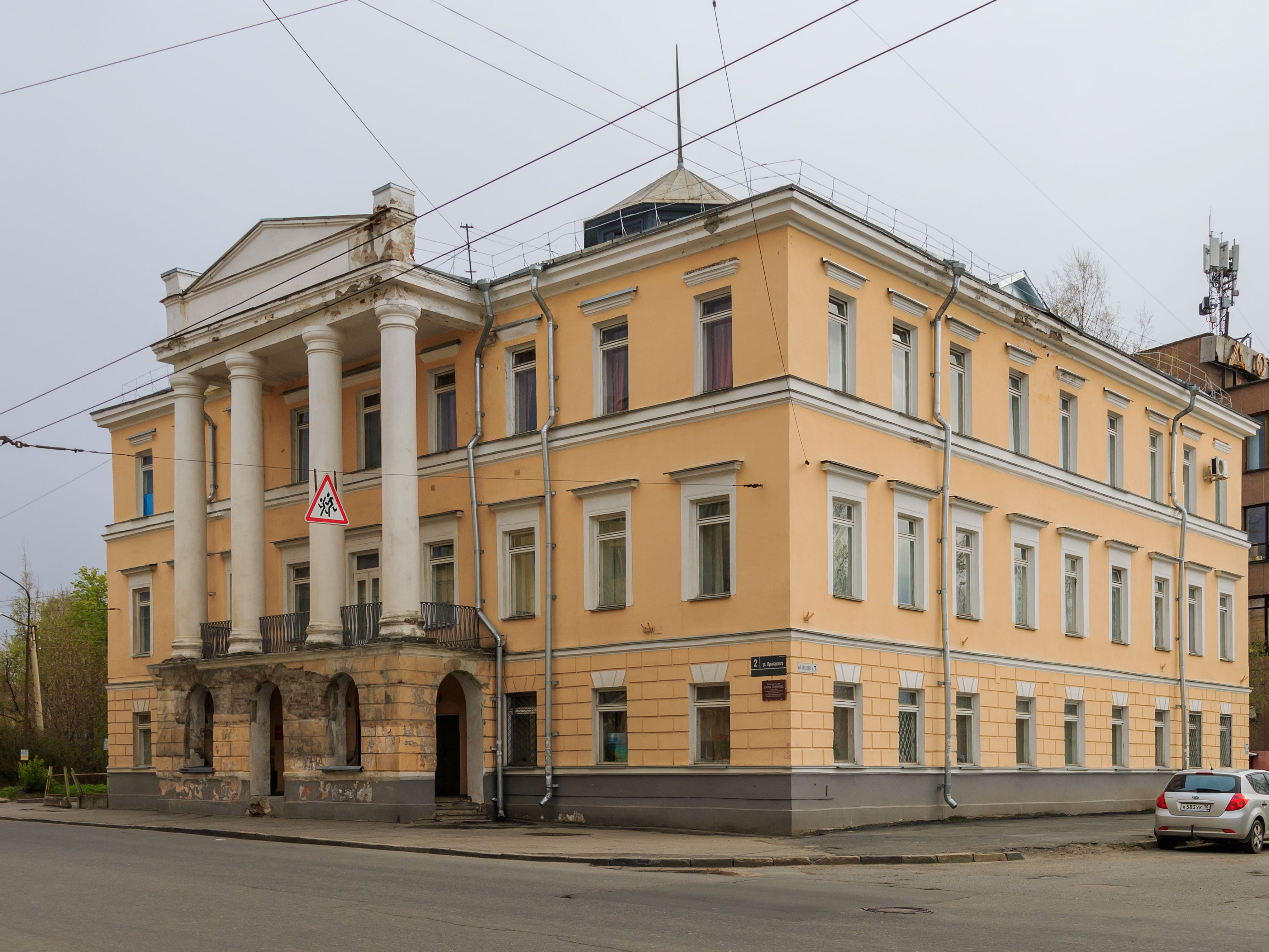 Pimenov House in Petrozavodsk, Republic of Karelia (Russia).